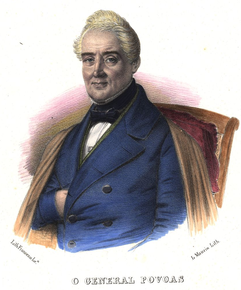 General Póvoas (Álvaro Xavier da Fonseca Coutinho e Póvoas, 1773-1852), Portuguese military officer and aristocrat.